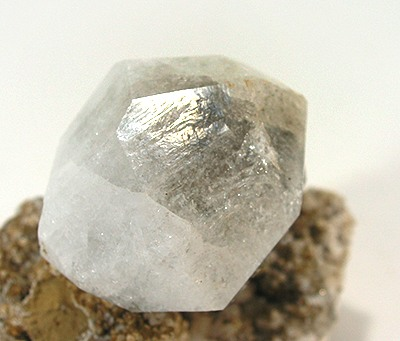 Analcime Locality: Thura, Tunguska River Basin, Siberia, Russia Size: miniature, 4.3 x 4.1 x 3 cm Analcime This is a superb display-quality miniature featuring a complete, lustrous, textbook-crystal of analcime perched dramatically on sparing matrix! The crystal is about 1 inch across, and is VERY 3-dimensional!